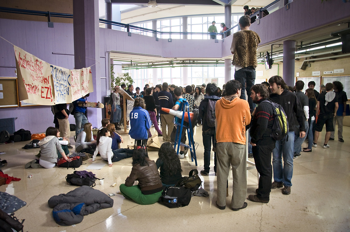 Occupatin at Arts Faculty,EHU